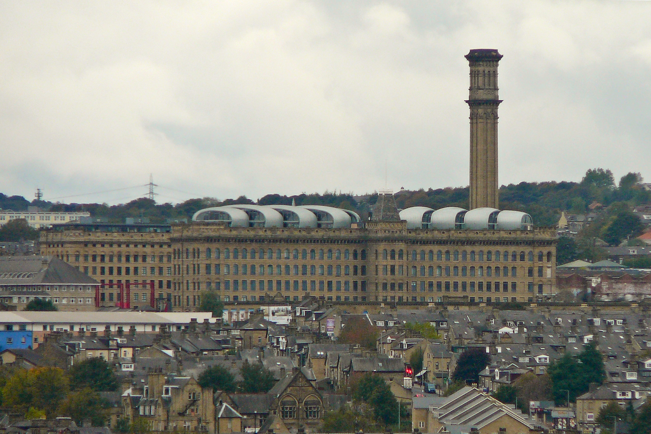 Manningham Mills as seen from Lister Park in the Manningham area of Bradford, West Yorkshire. Taken on Friday the 15th of October 2010.